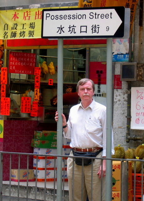 Barry Beyerstein in China with CFI